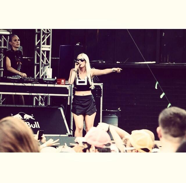 Australian EDM and dance music duo Kito & Reija Lee performing live